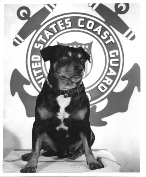 K9C Sinbad, USCGC Campbell (WPG-32), with USCG crest during photo op